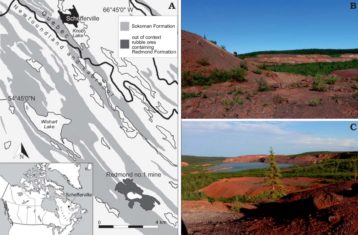 Geologic map of Redmond and Sokoman Formations, Canada with outcrops of Redmond Formation